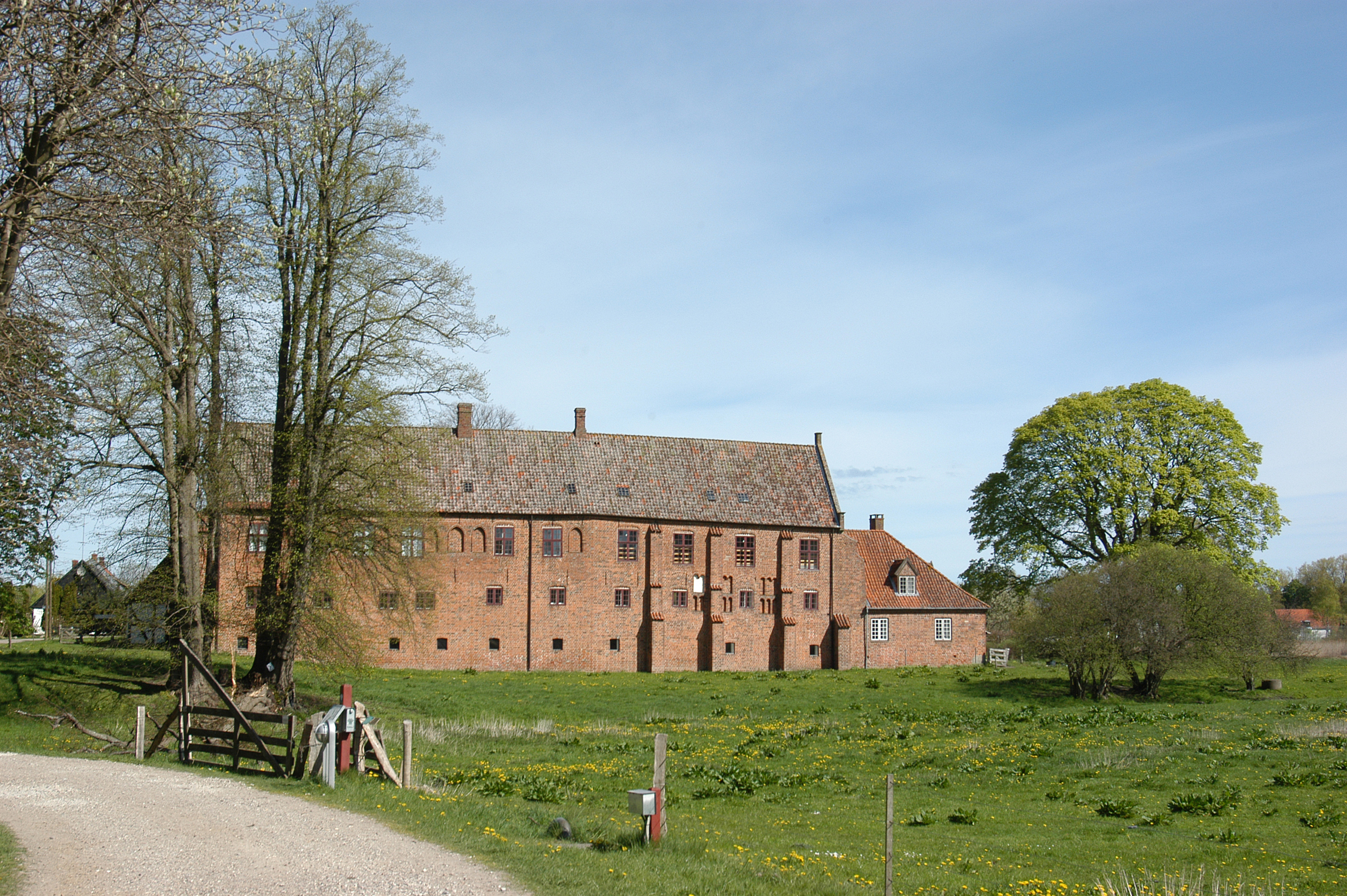 Esrum Monastery in Denmark.